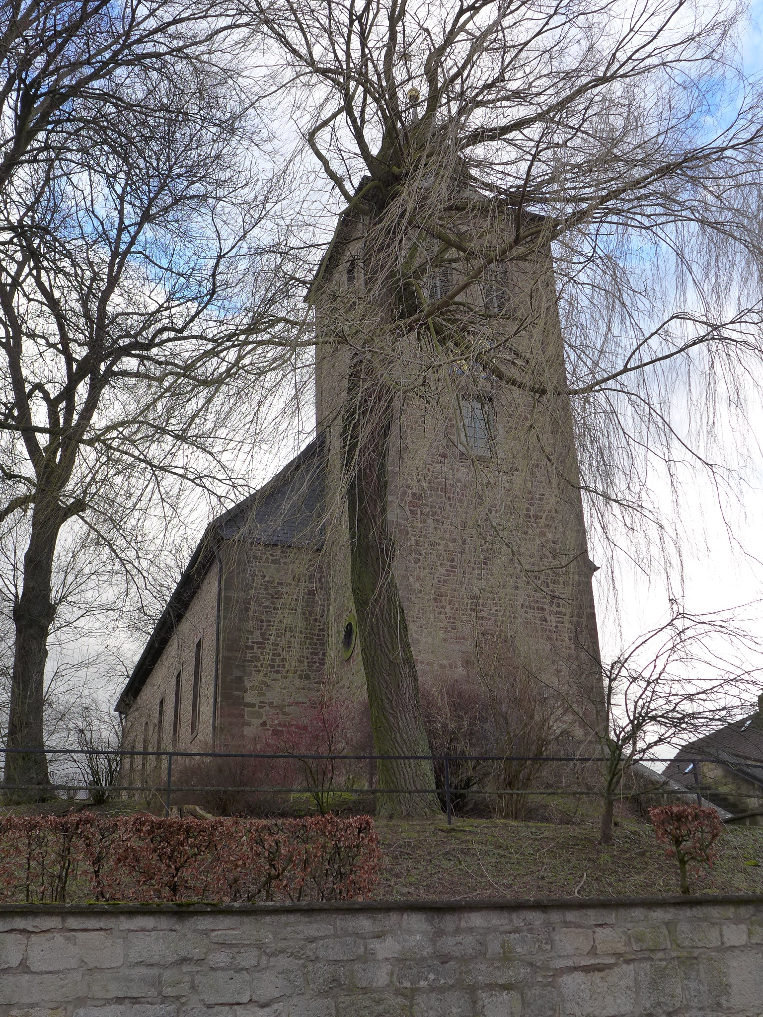 Willershausen church